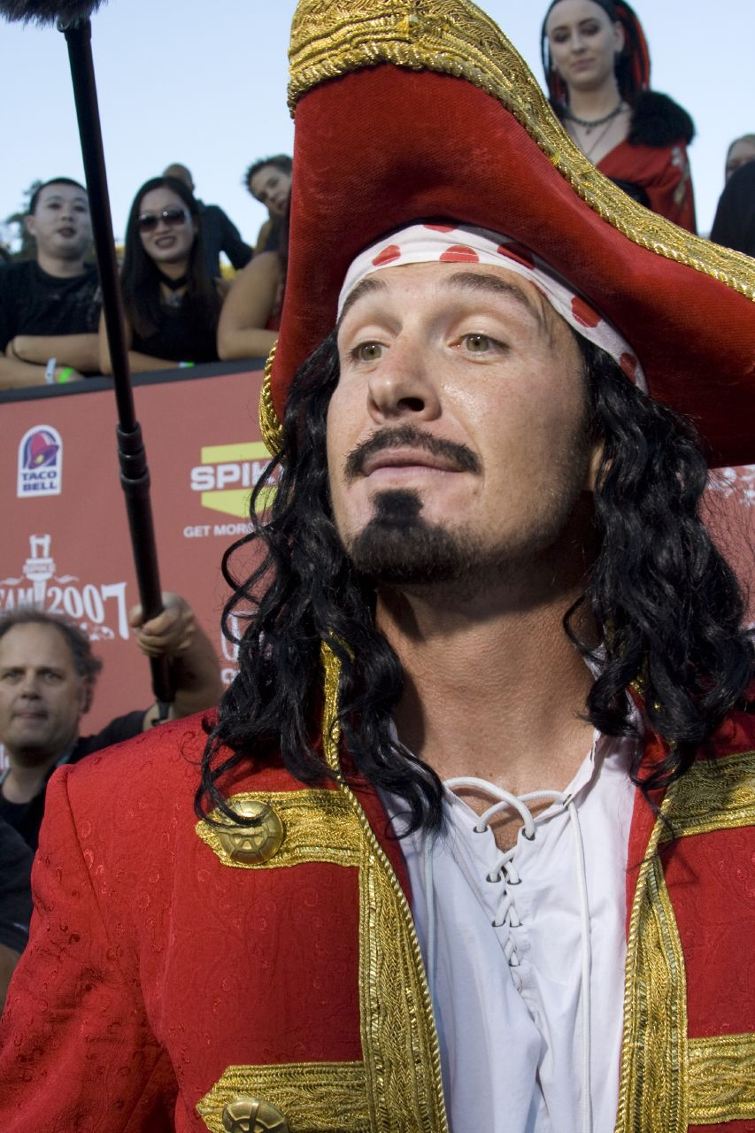 An actor dressed as Captain Morgan at the 2007 Scream Awards. Captain Morgan were sponsors of the event.